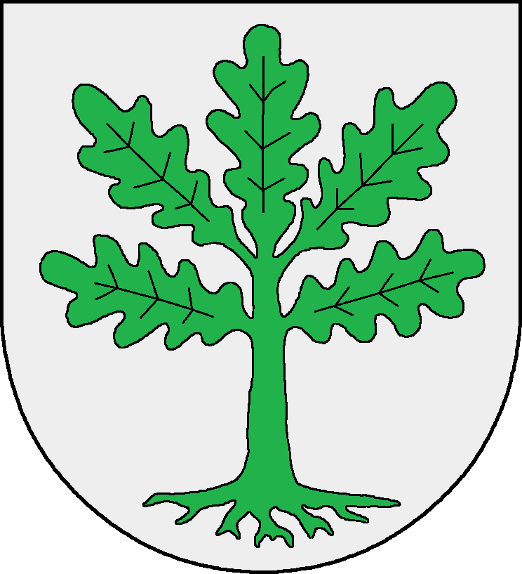 Coat of arms of the municipality Struxdorf in Schleswig-Holstein, Germany.